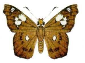 identifying features of Australian butterfly species wing pattern